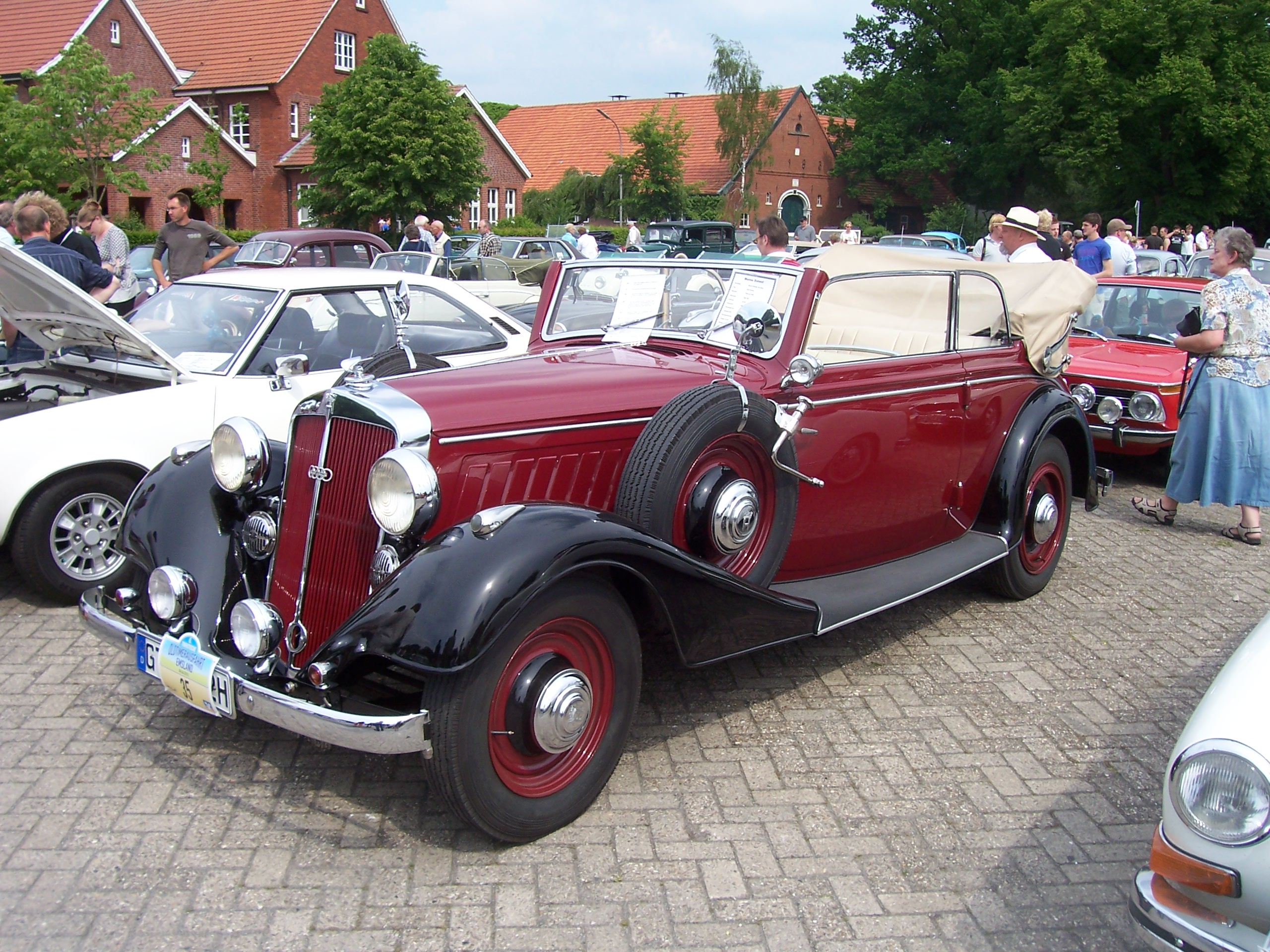 1935 Horch 830 Cabriolet